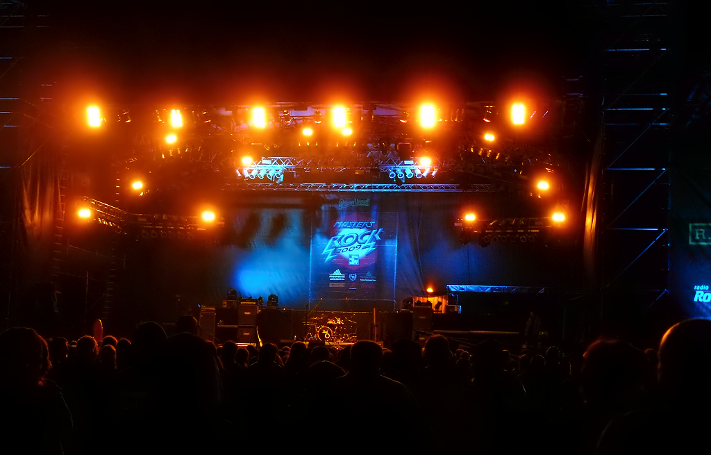 Masters of Rock 2009